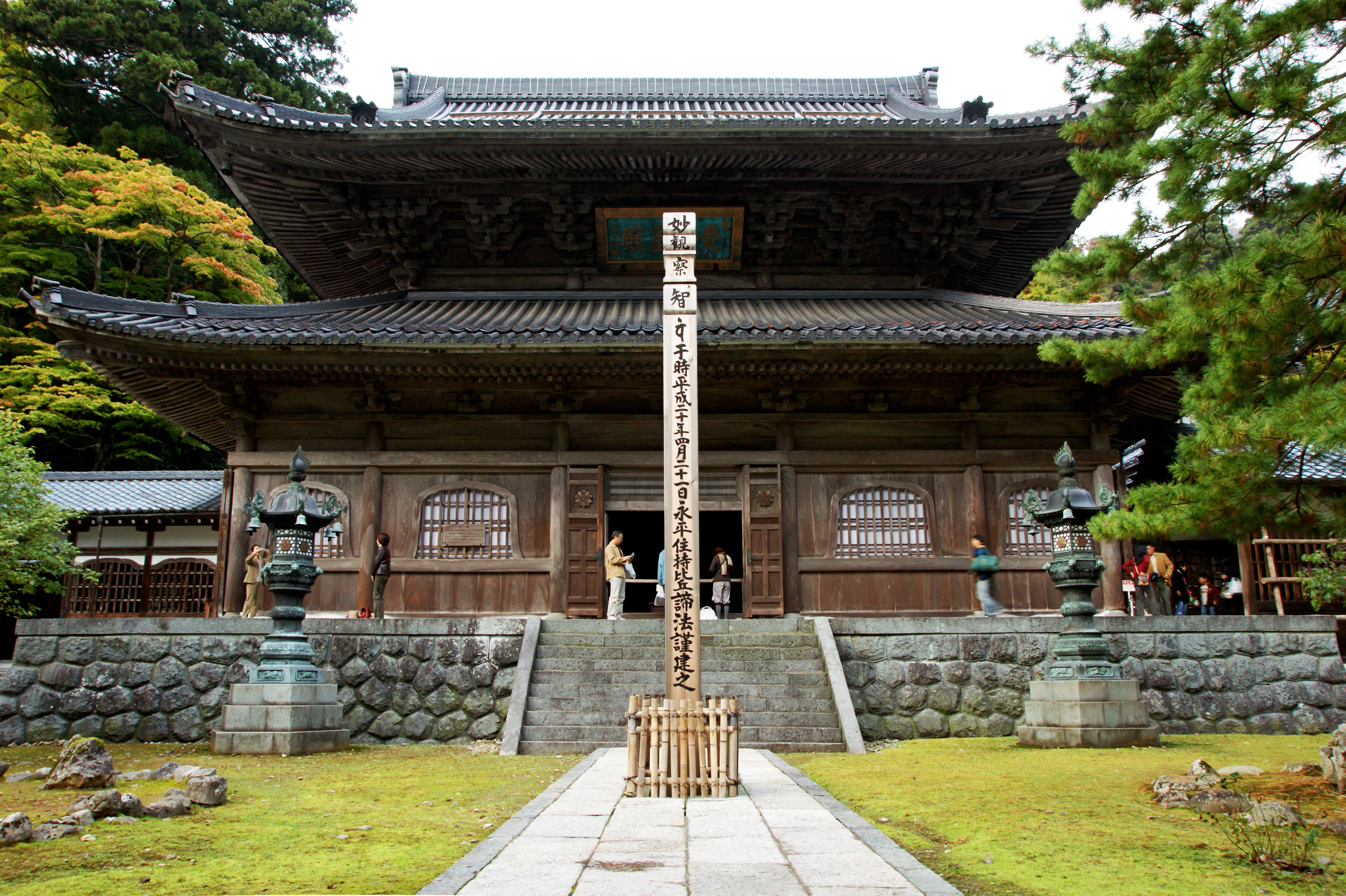 Eiheiji, Eiheiji, Fukui prefecture, Japan